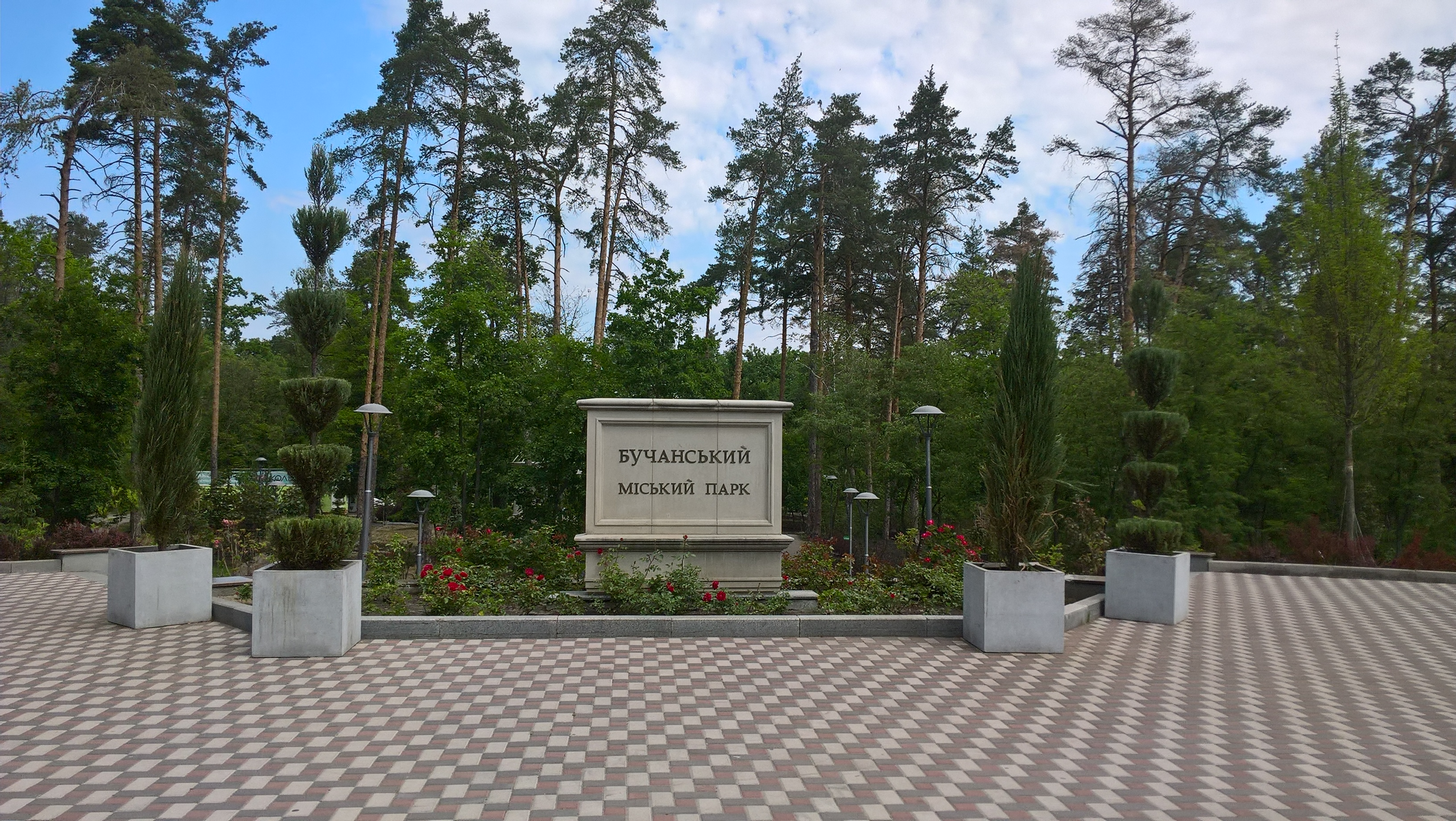 Entrance to the Bucha municipal park